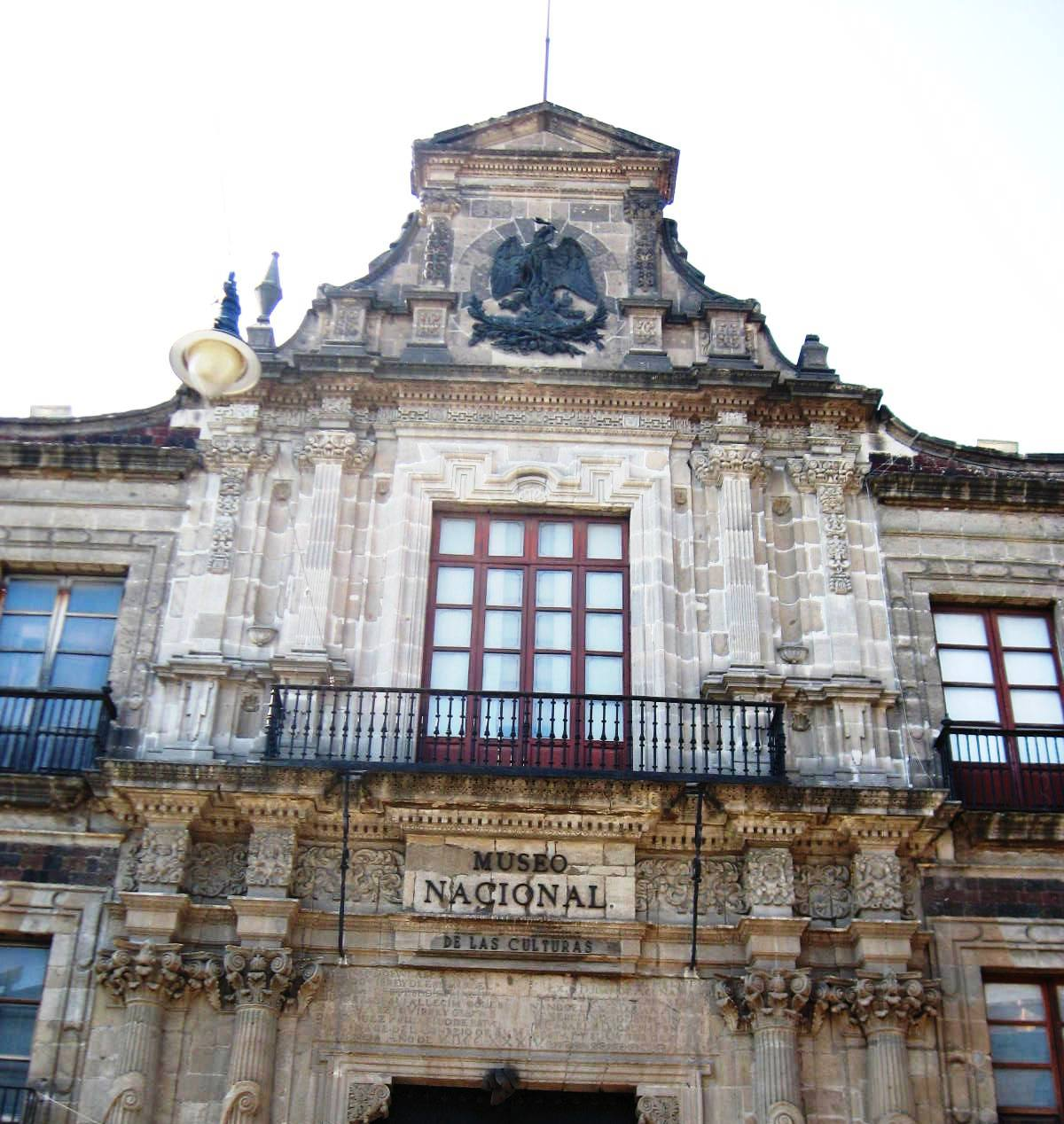 Above the main entrance of the National Museum of Cultures on Moneda Street in Mexico City's historic center